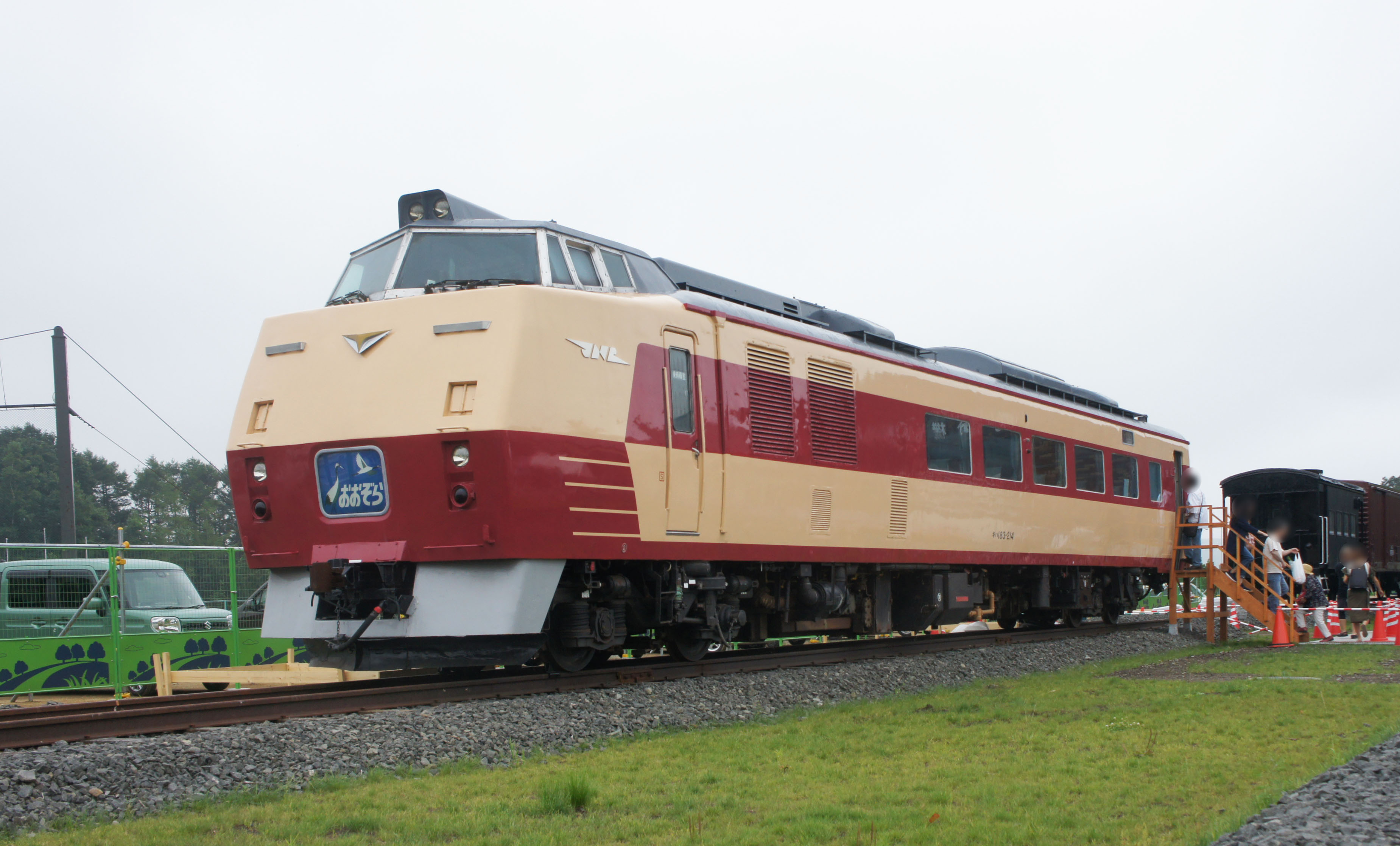 Kiha 183 Series stored at Michinoeki Abira D51Station